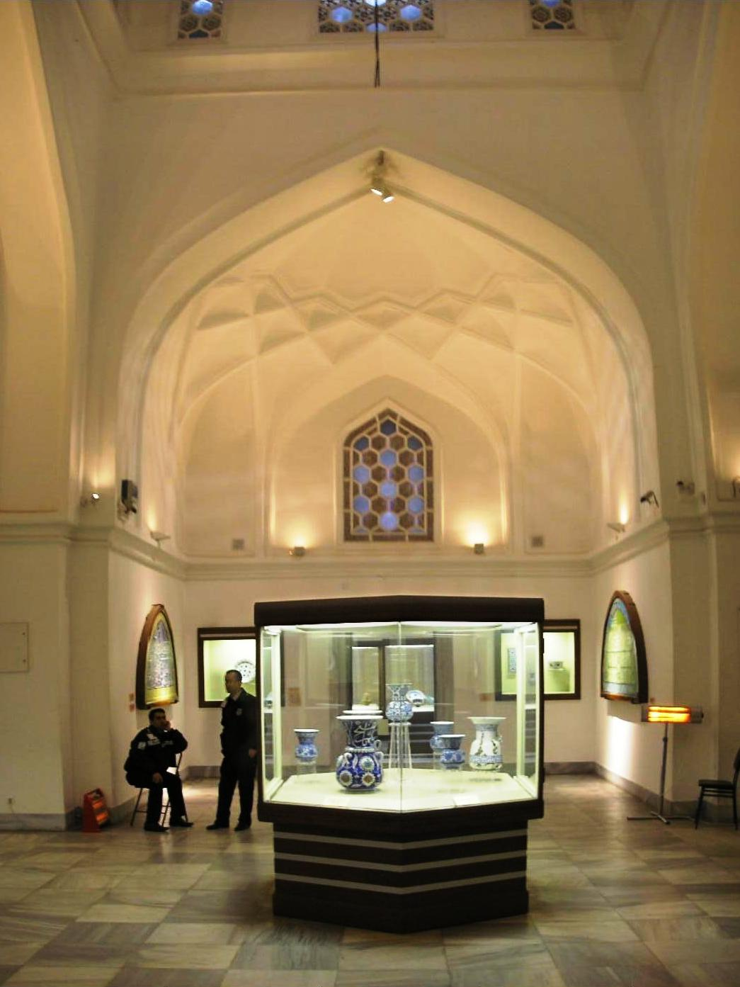 Interior of the Tiled Pavilion (museum) in Istanbul.